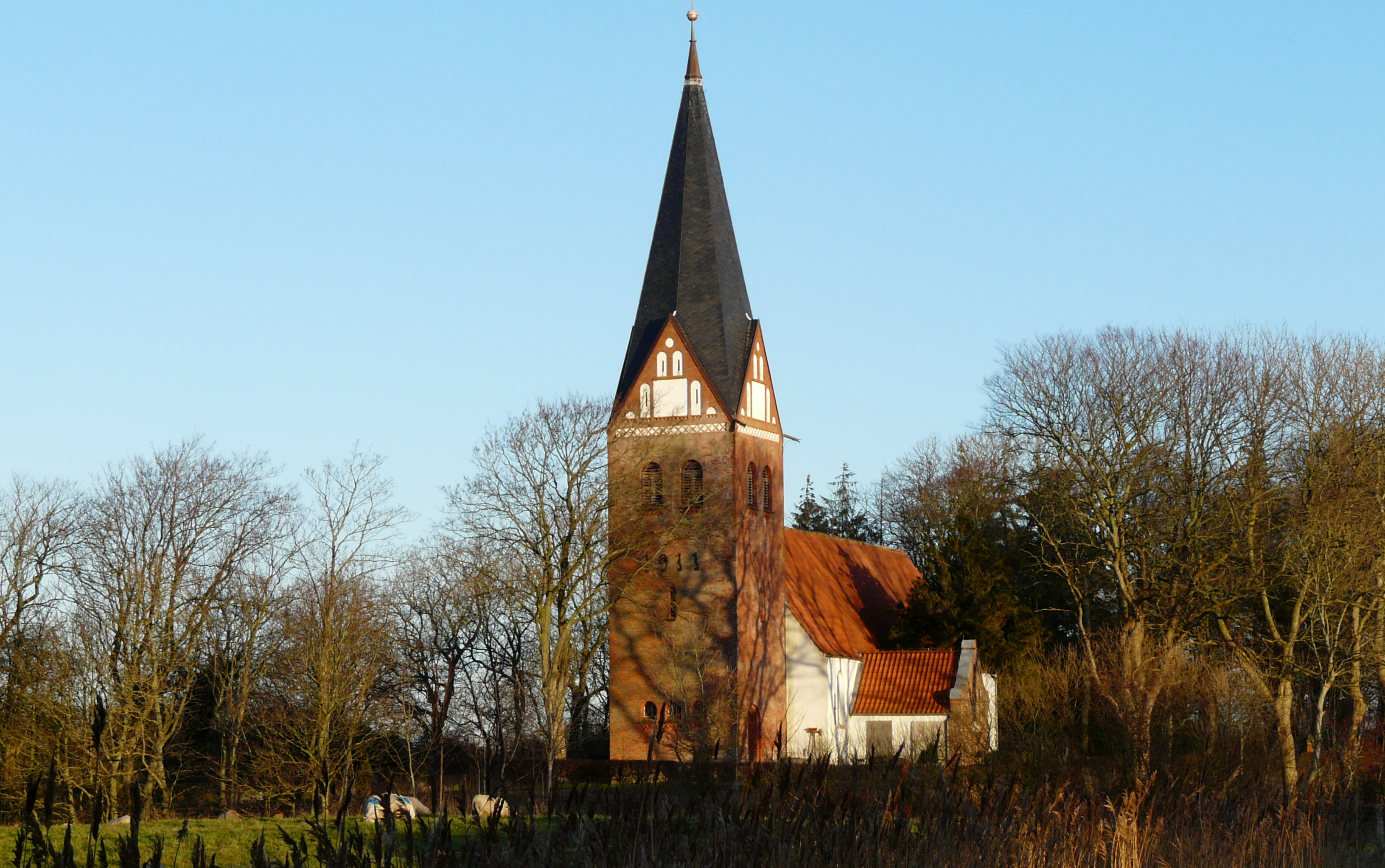 Aventoft